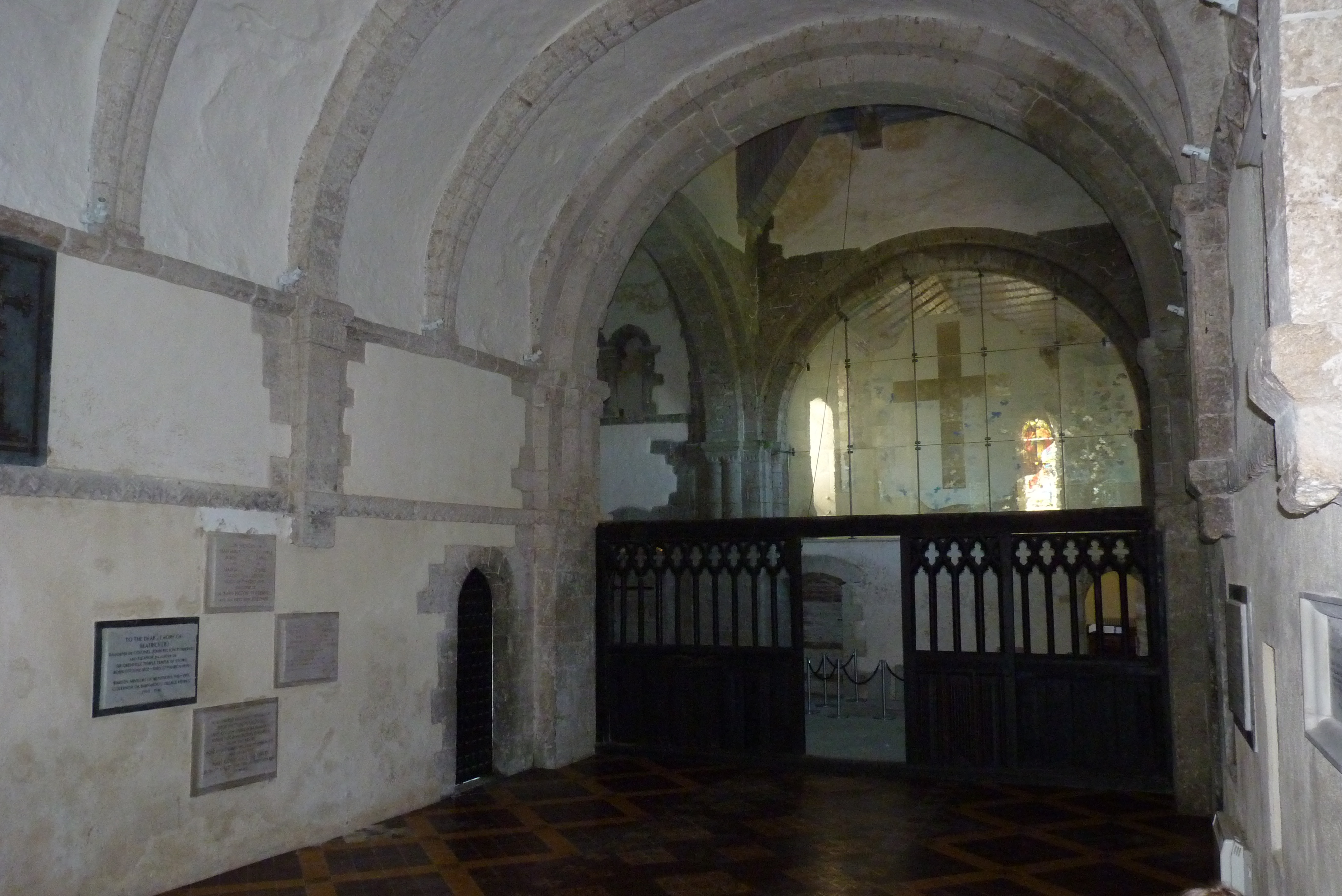 Ewenny priory, Vale of Glamorgan, is in the care of Cadw